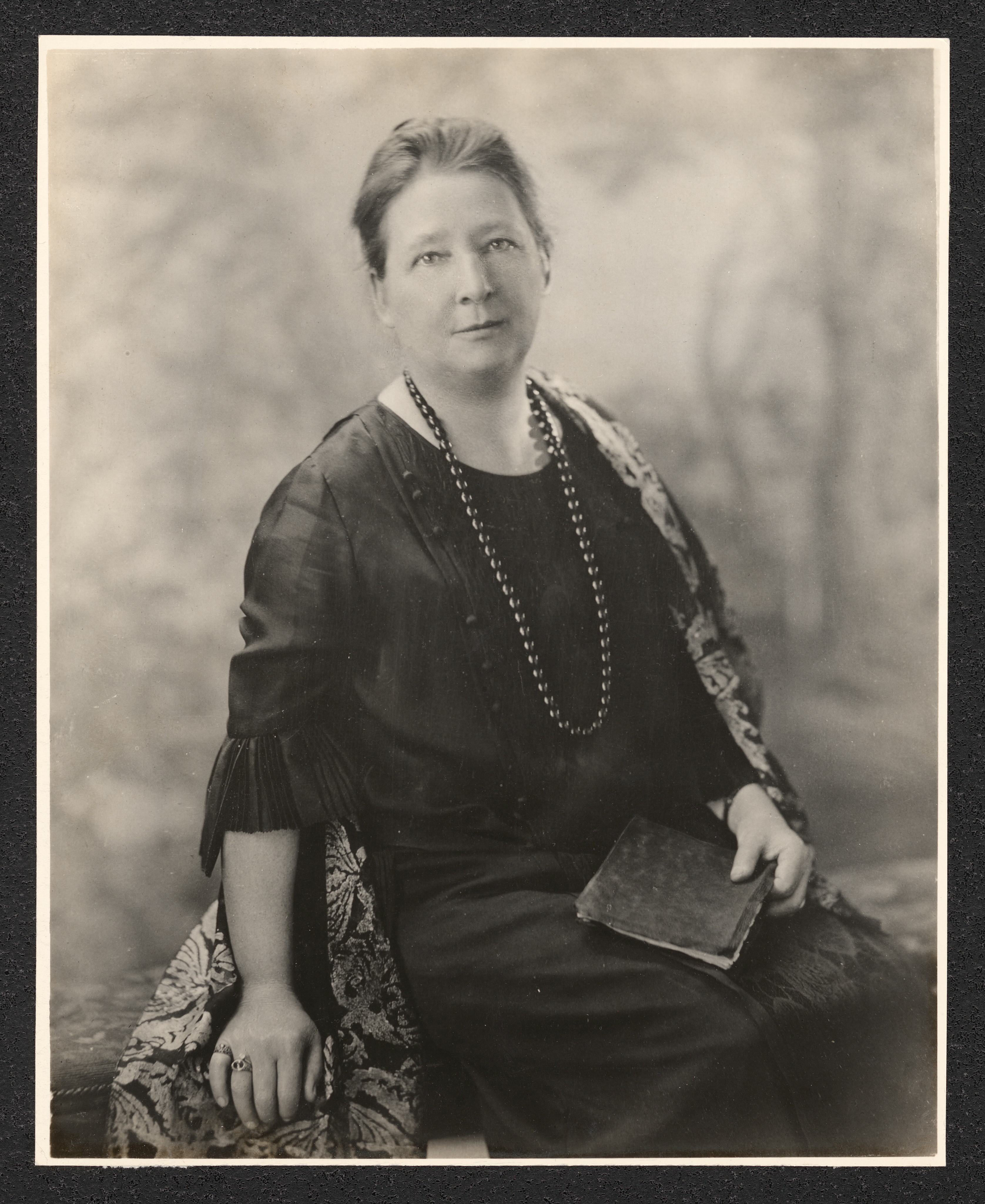 Emily P. Bissell, who introduced Christmas Seals to the United States.